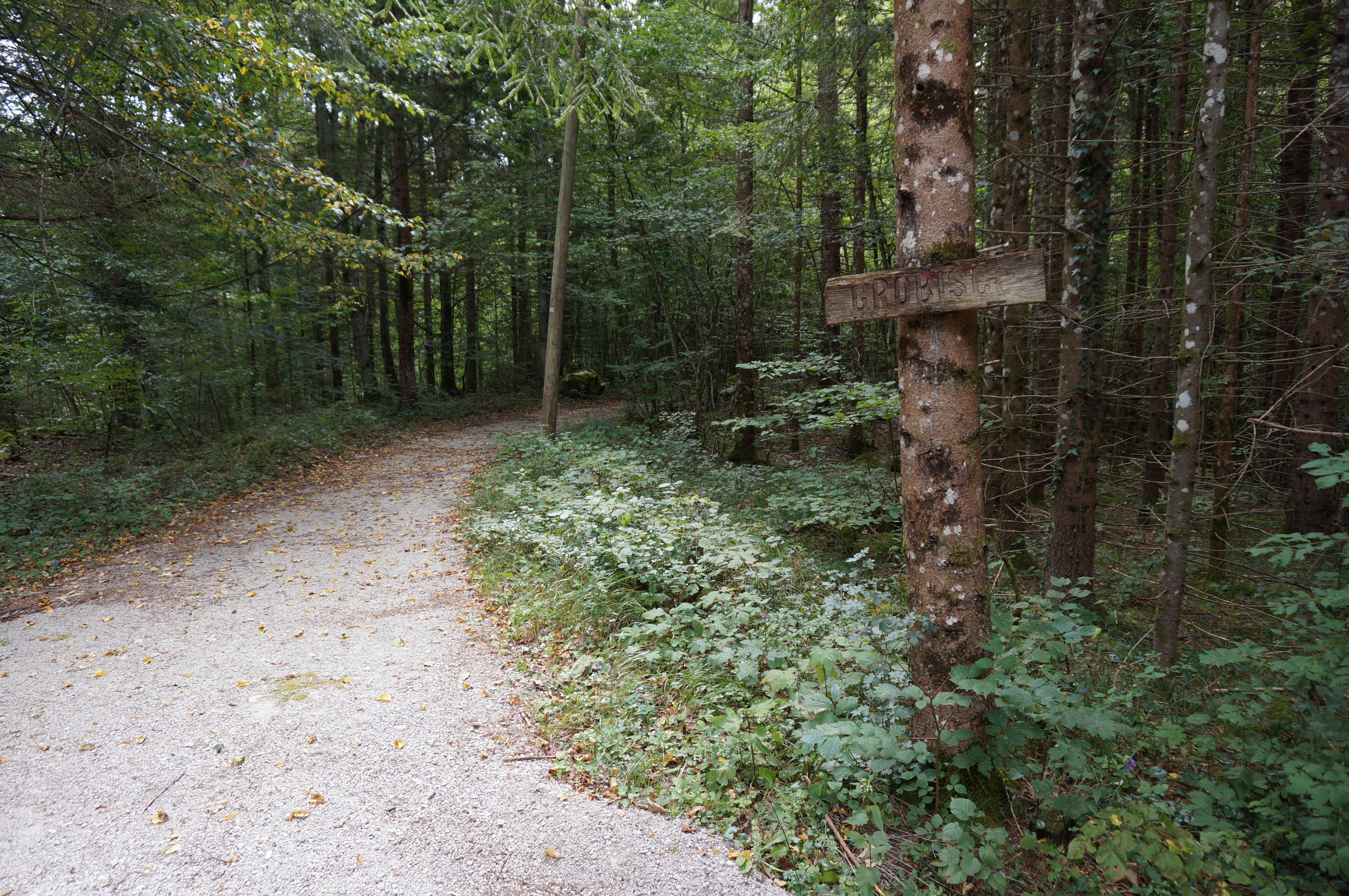 Pathway to memorial site in Kocevski rog